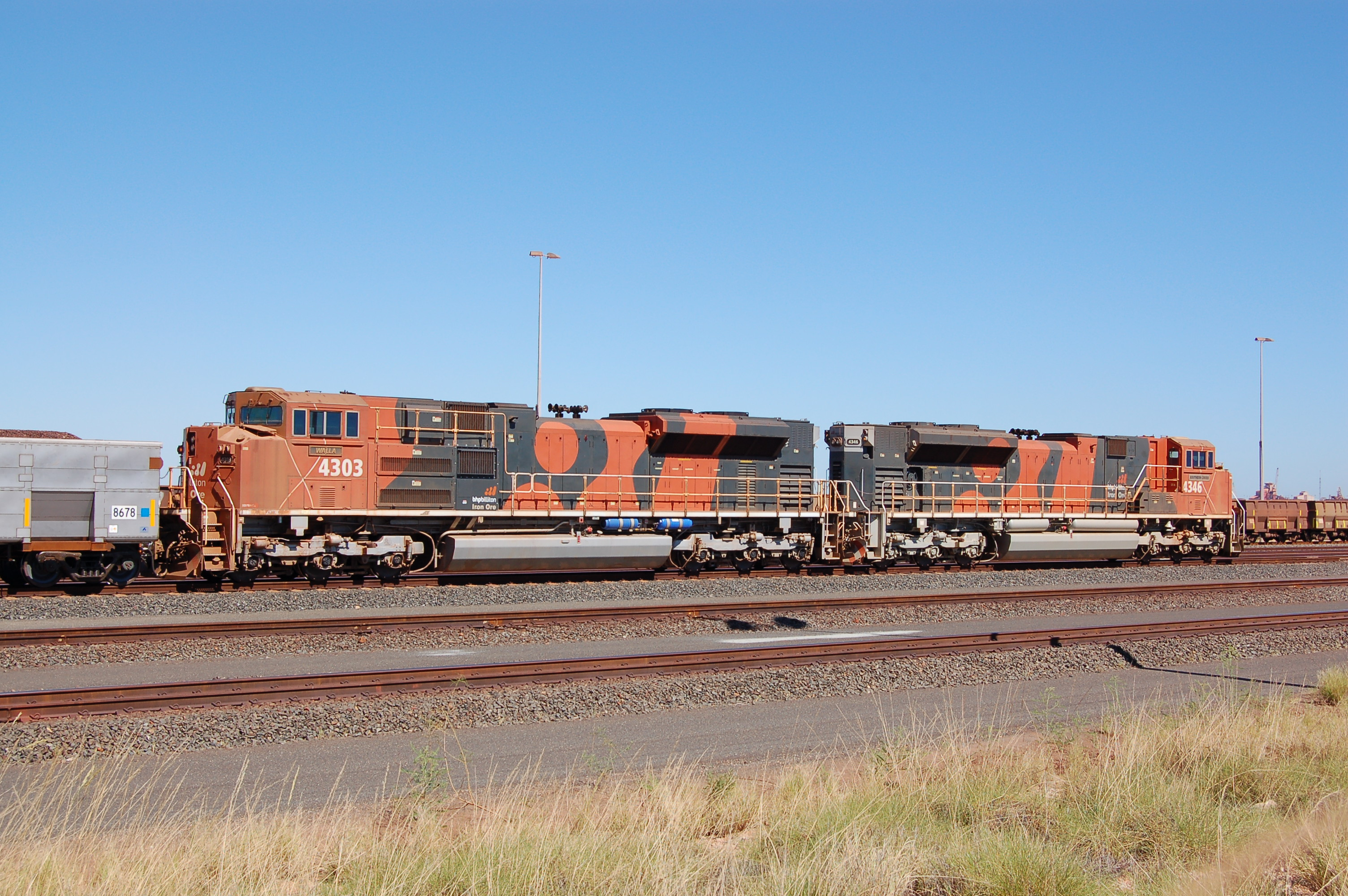 BHP Billiton Iron Ore EMD SD70ACe no. 4303 Walla (left) and no. 4346 Southern Cross (right) at the head of a loaded train at Nelson Point yard, Port Hedland, the northern terminus of the Mount Newman railway, Western Australia.